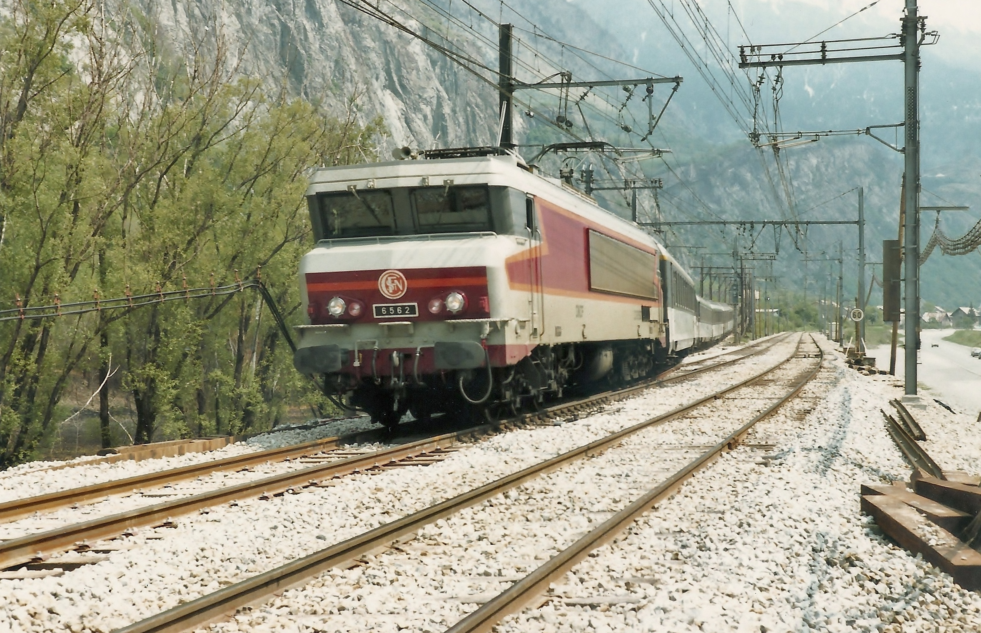 Sight of Class SNCF CC 6562 with the train 'Le Mont-Cenis' from Turin to Lyon, leaving the évitement de Pontamafrey passing loop and moving back to the Maurienne line, in Savoie, France.Picture taken the day of the annual opening for tests, in June.